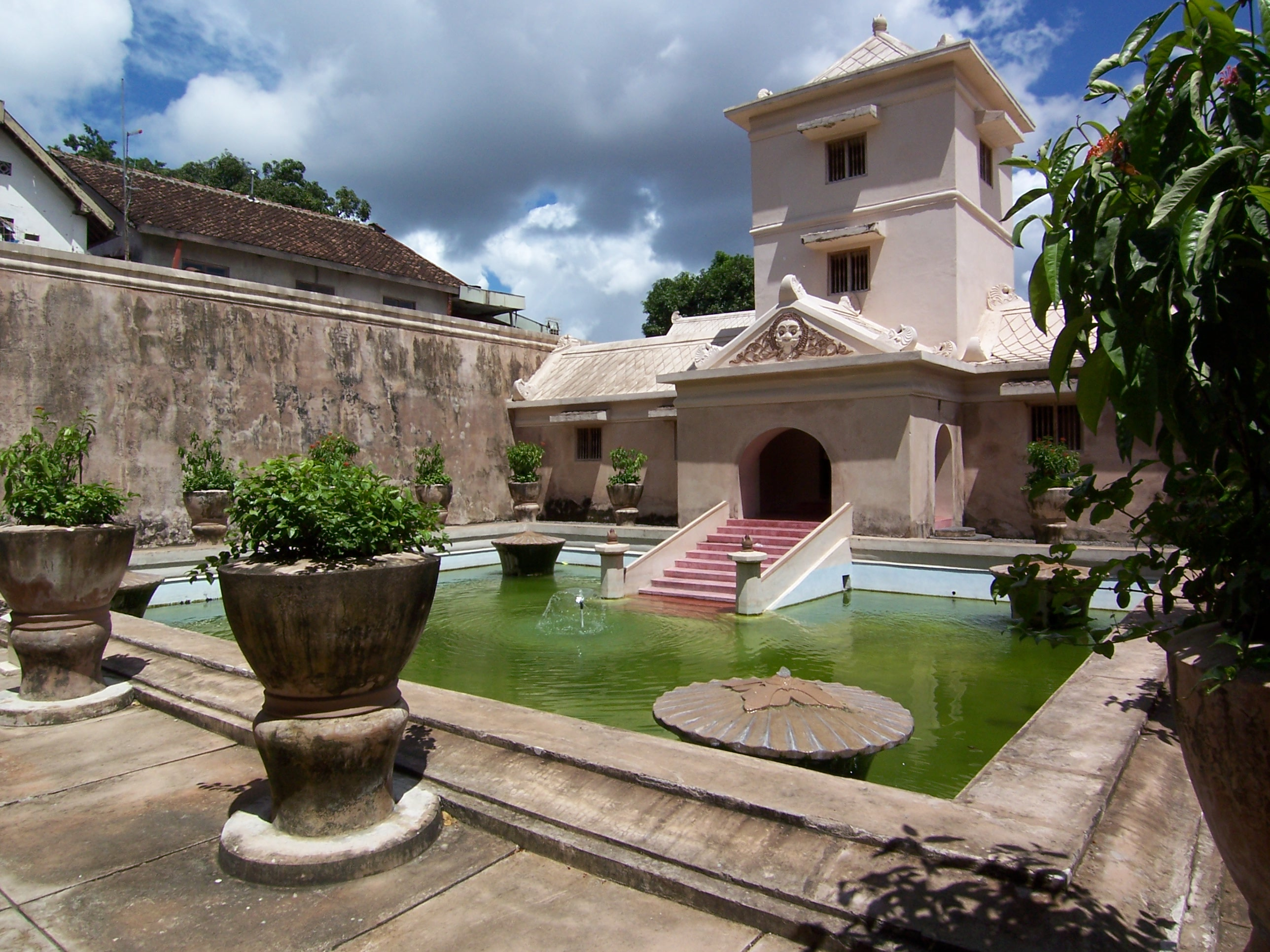 Taman Sari, Yogyakarta, Indonesia